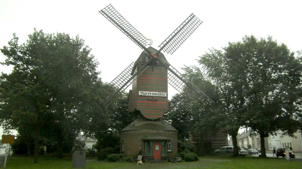 The Narrenmühle (literally: Fools' mill) in Dülken, Viersen, Germany.